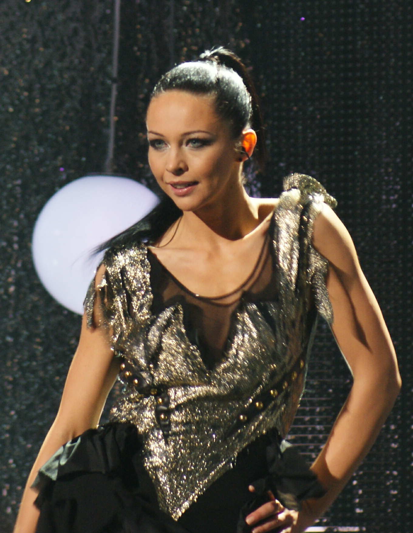 Magdalena Tul